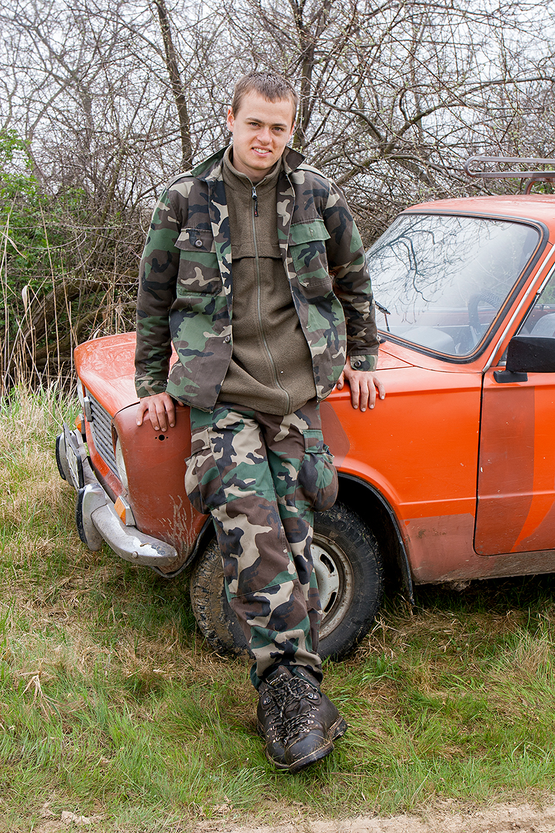 In the documentary series called "The Invisible Wildlife Photographer" he was driving his first car.